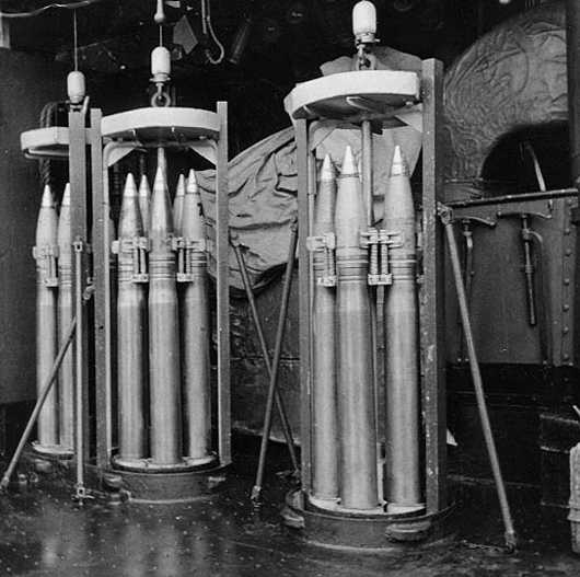 German 10.5 centimeter anti-aircraft ammunition